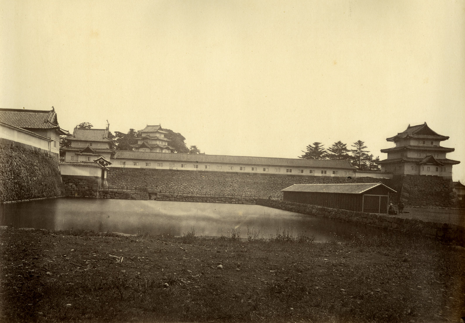 CASTLE OF YEDO,—INNER MOAT. THE Castle of Yedo, for Two Hundred and Sixty years the residence of the Taikuns, and now (1869,) that of the Mikado of Japan, was built in the beginning of the seventeenth century, by Iyeyasu, the great founder of the last dynasty of Taikuns, or Shioguns. An older Castle had, however, previously existed on the spot where now stands the Nishi-no-Maru, or Western Palace. It was built, according to one account at least, by Ota-do-kan, a noted retainer of a former dynasty. The Hon-Maru, or principal palace, with the moats as they now exist, are the work of Iyeyasu. The Nishi-no-Maru is seen in the view at the farther end of the bridge, while the Hon-maru occupies the space behind the spot where the spectator is supposed to be standing.